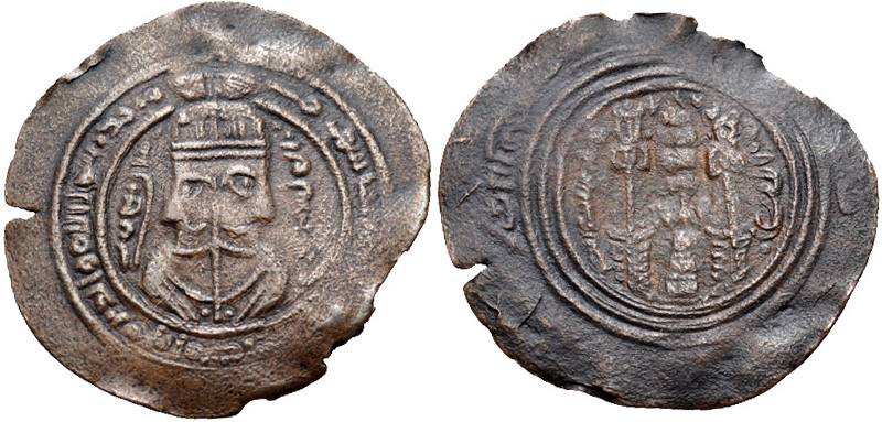 Umayyad Caliphate. Anonymous. Æ Pashiz (27mm, 2.07 g, 6h). Arrajān (Veh-az-Amid-Kavād) mint. Dated AH 83? (AD 702/3?). Crowned Janiform bust; “hubaxtīh” in Pahlavi to left, “fortune and prosperity” in Pahlavi to right; all within double circle border containing “Muhammad is the Messenger of God, those who recite with him are violent to the infidels and compassionate between them” in Arabic / Fire altar with attendants flanking; “83”(?) in Pahlavi to left, “WYHC” in Pahlavi to right; triple circle border with star-in-crescent motif at [3] and 12 o’clock and “current” in Pahlavi approximately around 9 o’clock. Gyselen 49.4 (this coin). VF, brown patina, slightly ragged edge. Extremely rare.